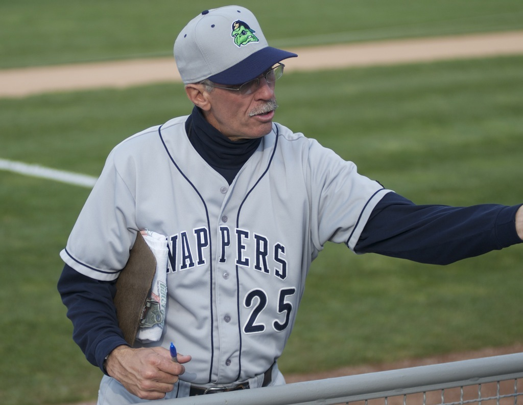 Gary Lucas, pitching coach for the Beloit Snappers, in 2008